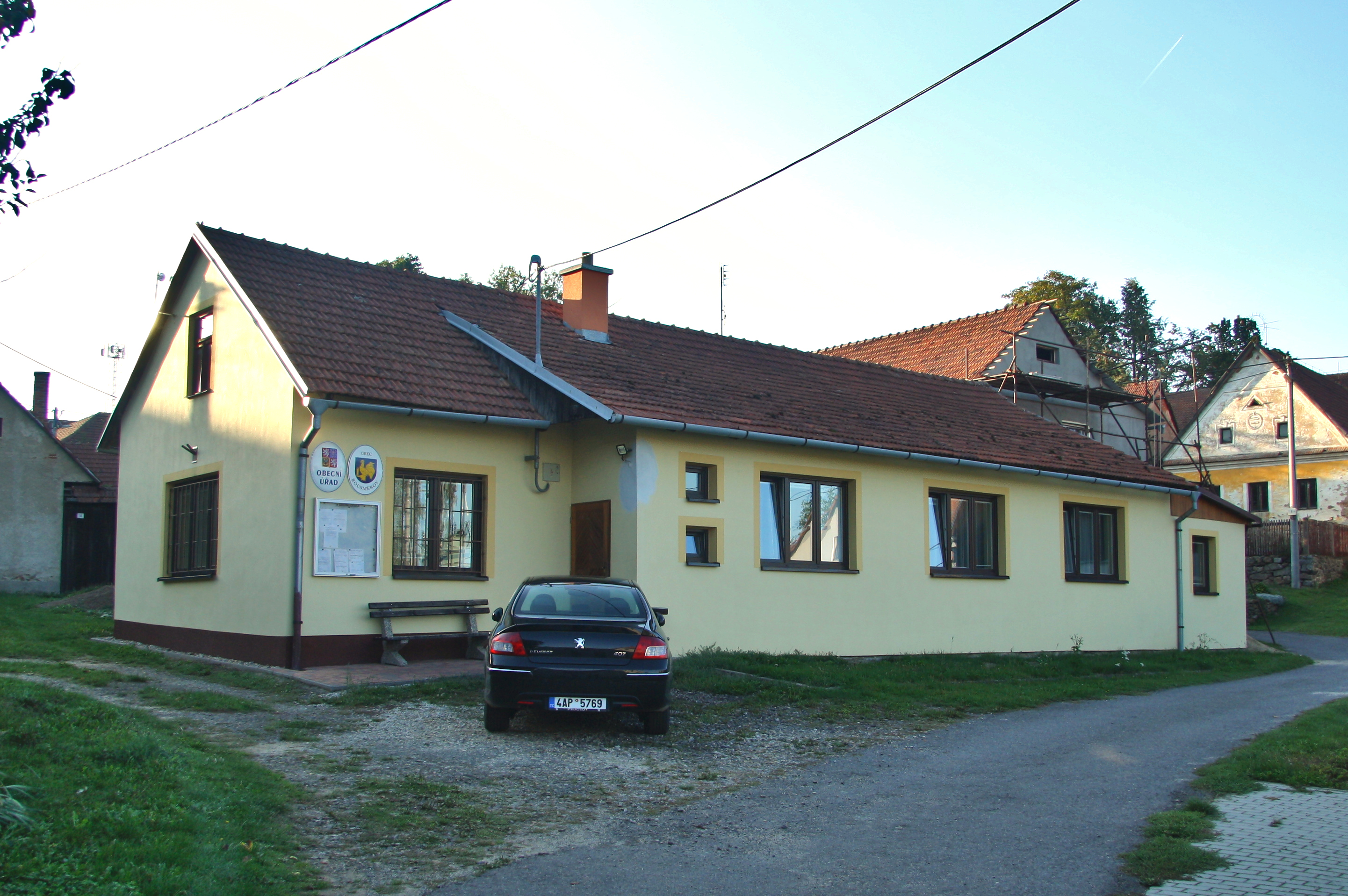 Municipal office in Rousměrov, Žďár nad Sázavou District.